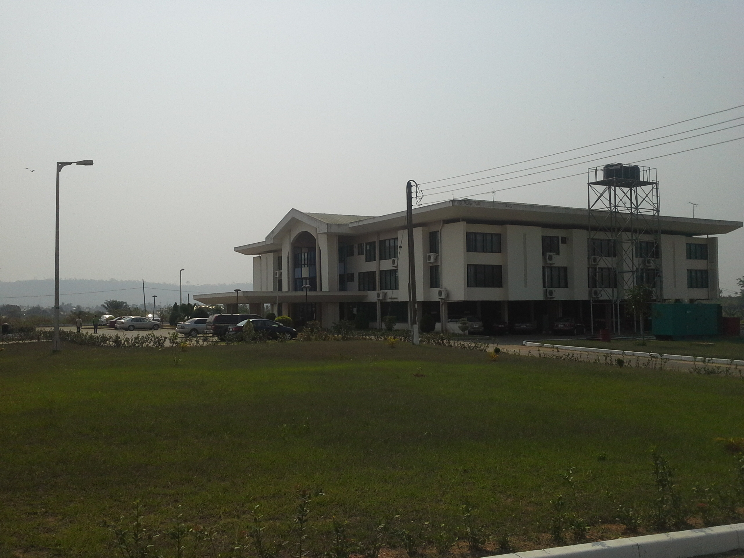 a distant view of k poly